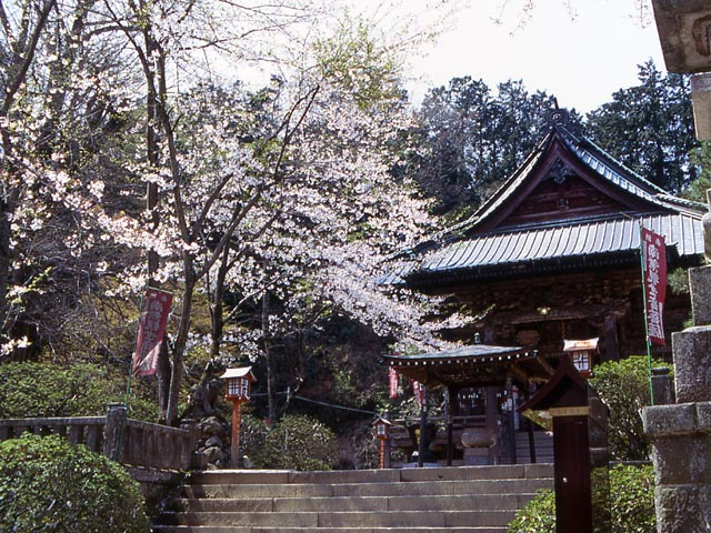 Kannondō hall of Shōbō-ji temple in Higashimatsuyama-shi, Saitama